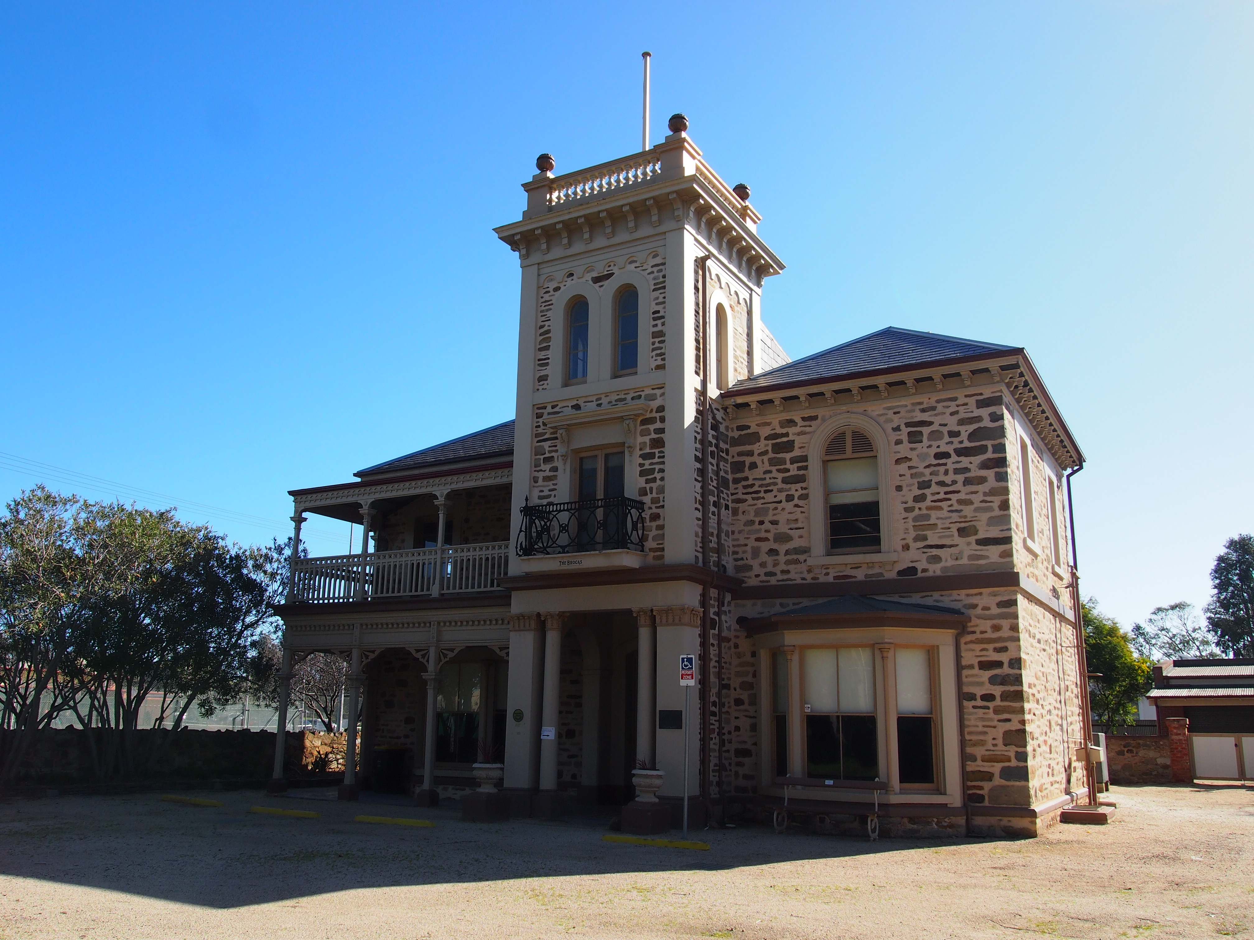 The Brocas, a historic house rebuilt in 1870 in Woodville, South Australia, replacing an earlier house built in 1840 which had been damaged in a fire in 1854. original filename = P8033750.JPG